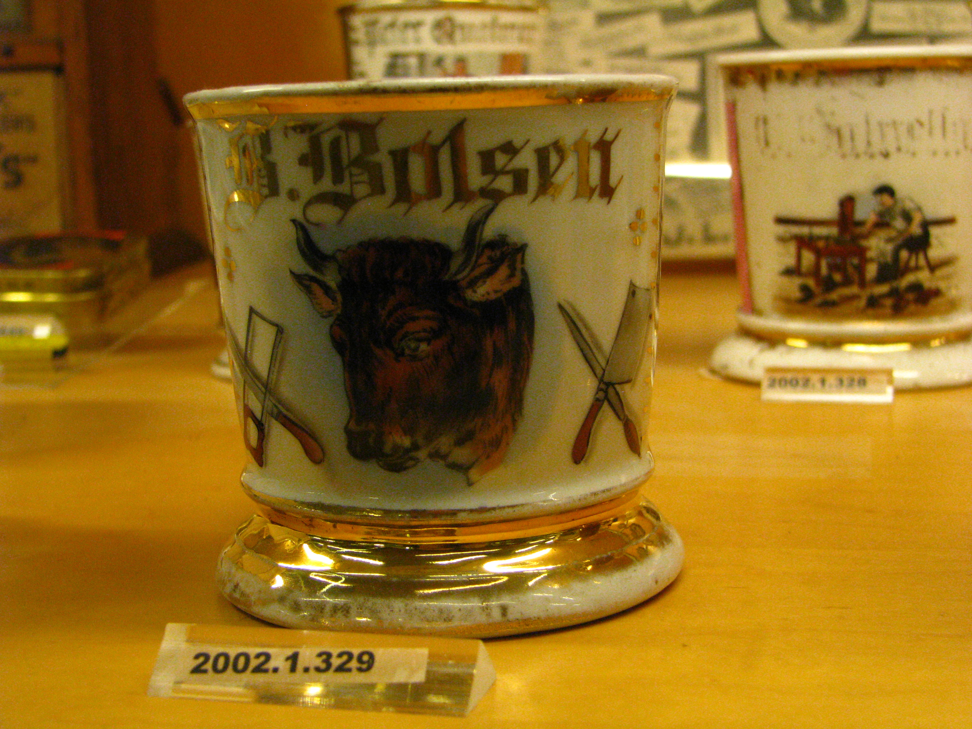 Shaving mug ca. 1890-1930 3 1/2 x 3 1/2 in. diameter Ceramic Gift of Bella C. Landauer New-York Historical Society 2002.1.329 Wikipedia Loves Art at the New-York Historical Society This photo of item # 2002.1.329 at the New-York Historical Society was contributed under the team name "the_adverse_possessors" as part of the Wikipedia Loves Art project in February 2009. New-York Historical Society The original photograph on Flickr was taken by _cck_—please add a comment to the original Flickr page whenever a use has been made on Wikipedia or another project. Project galleries on Flickr: this institution, this team